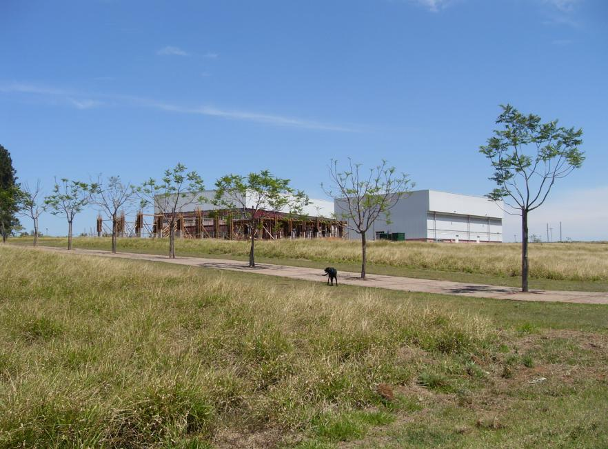 University of São Paulo